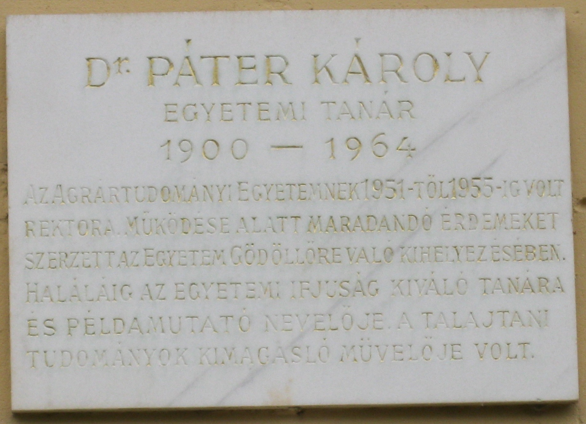 Commemorative plaque of Károly Páter, Szent István University (Páter Károly Street No 1), Gödöllő